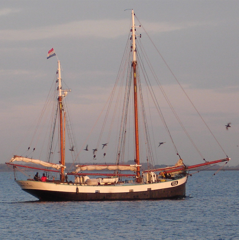 Sailing ship. Ketch. Photo by Solitude (en:18 October en:2004).